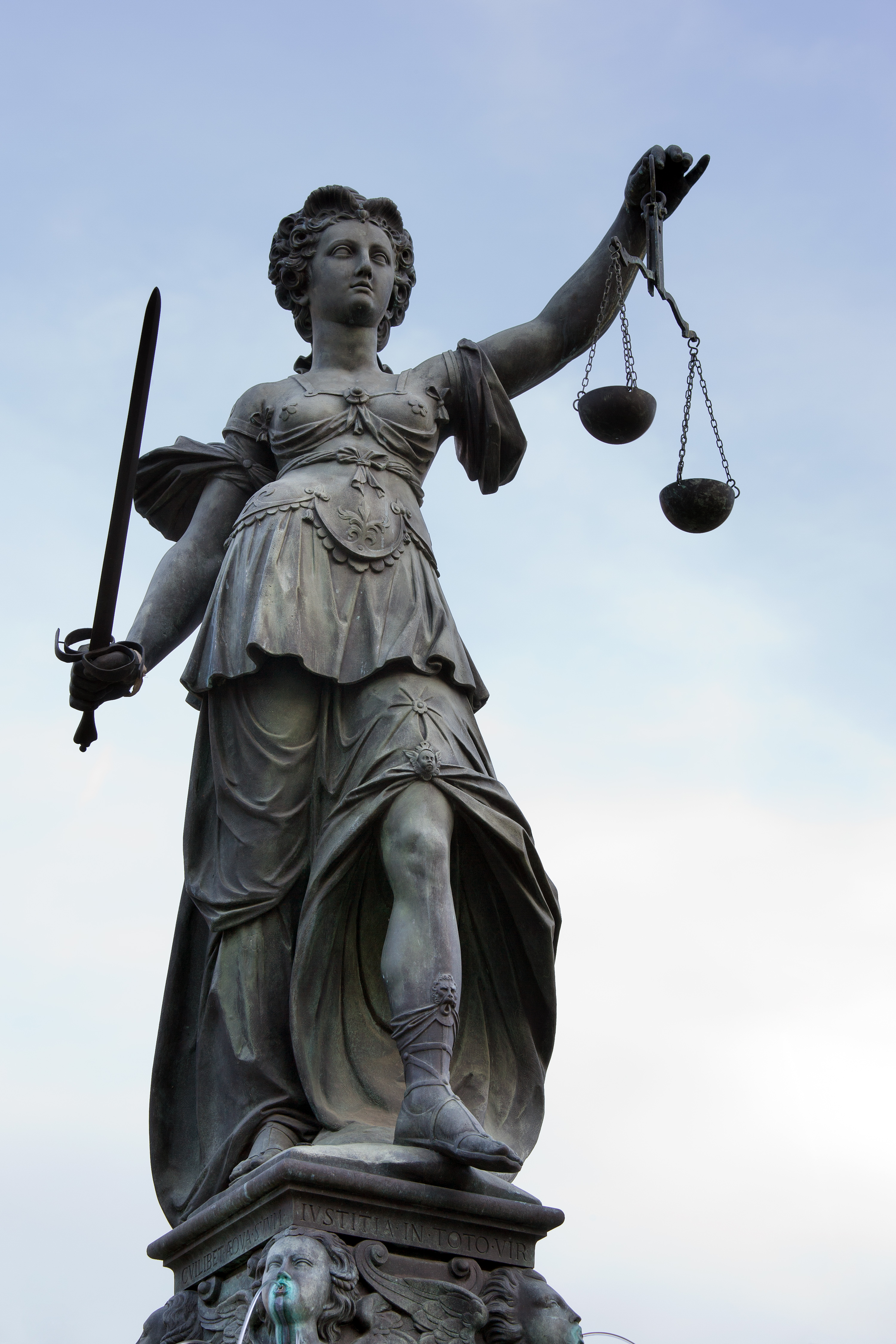 Frankfurt on the Main: Gerechtigkeitsbrunnen (Fountain of Justice), detail of the Lady Justice as seen from the northwest